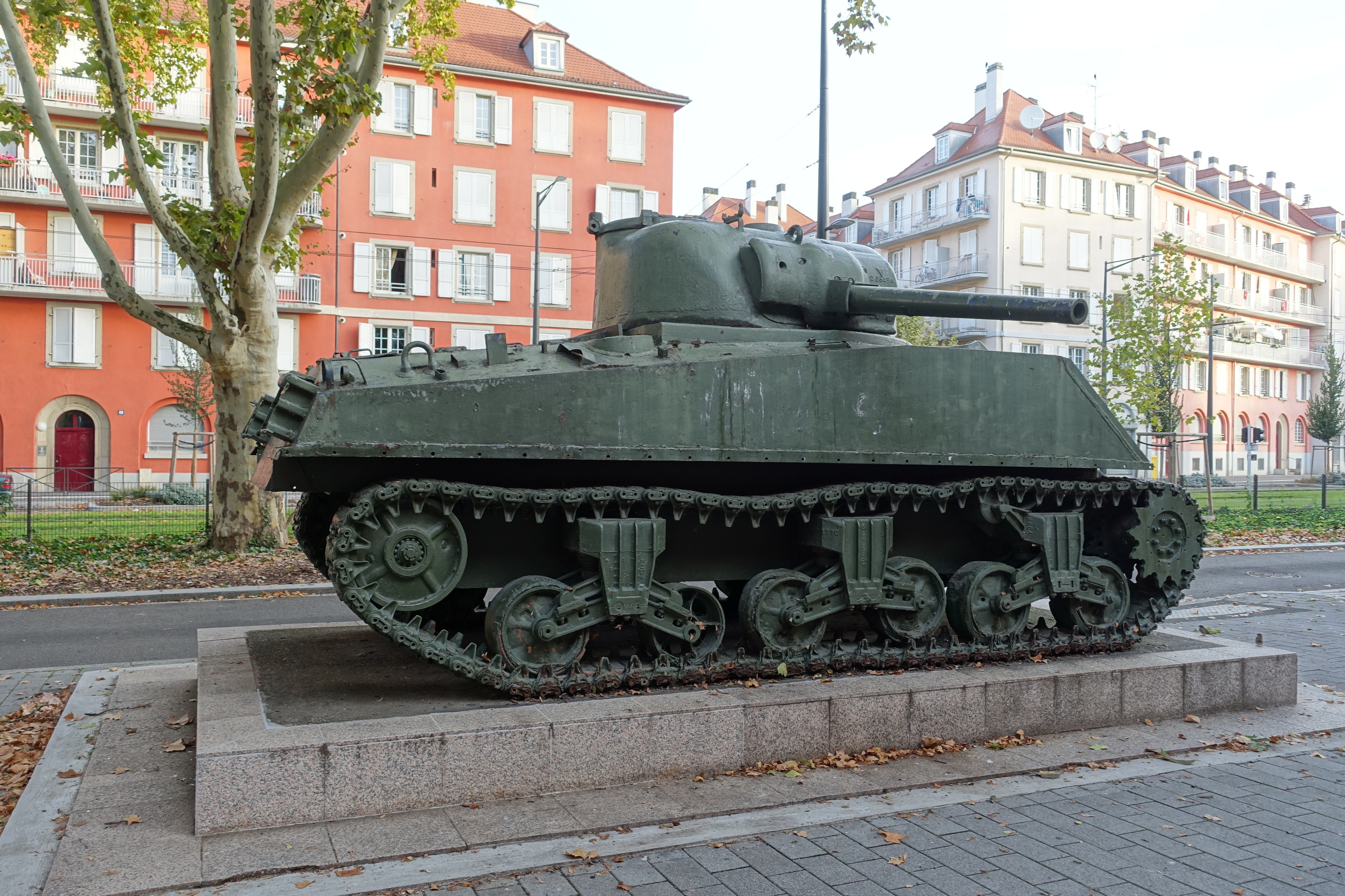 WW2 tank @ Strasbourg